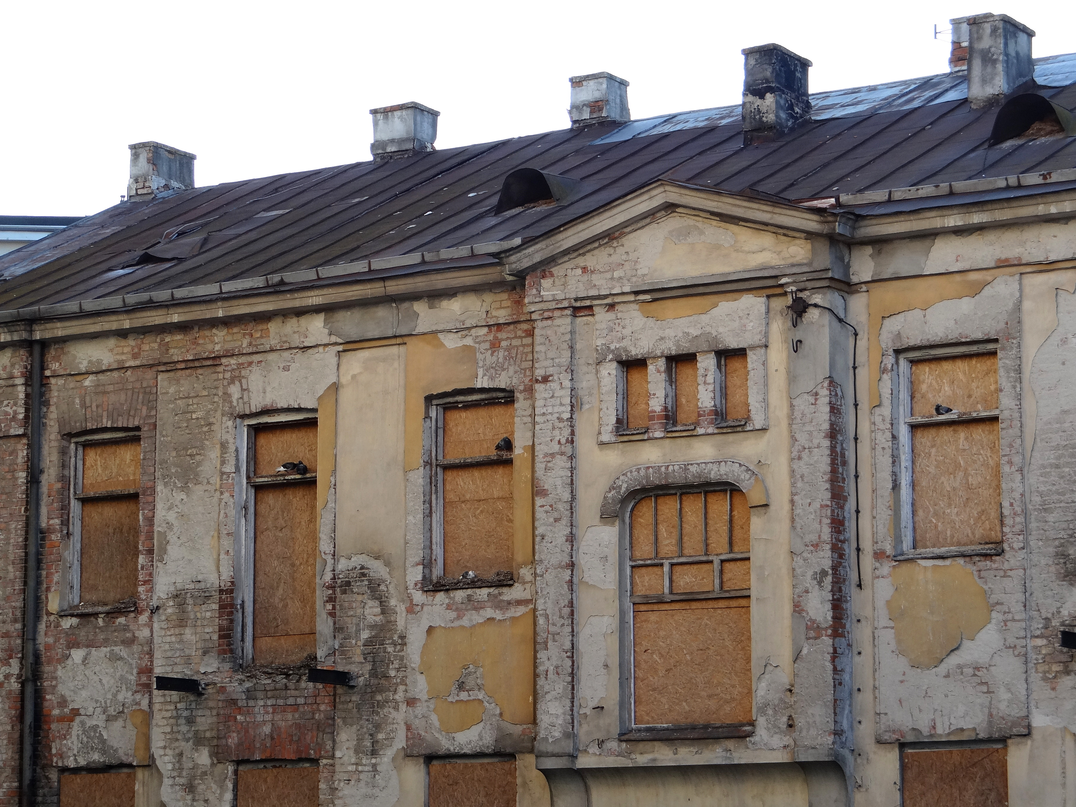 Abandoned Building in Former Jewish Ghetto - Bialystok - Poland